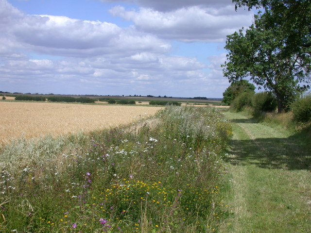 Insect-friendly field margin at Morden Grange Farm The bridleway is open to the public under the Countryside Stewardship Scheme. The farmer has carried out conservation work including the creation of grass margins to create a foraging and nesting habitat for farmland birds such as the grey partridge. Visible here is an area of pollen and nectar mix which has been planted to benefit bees, hoverflies and other beneficial insects.